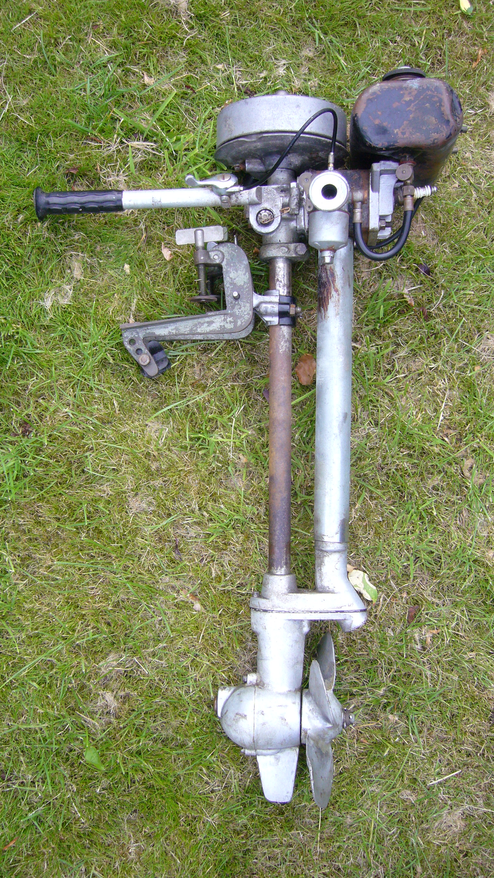 '40 series' British Seagull outboard engine. The engine is a "two stroke" design. The serial number on the cylinder block dates it to 1954 or 1955.